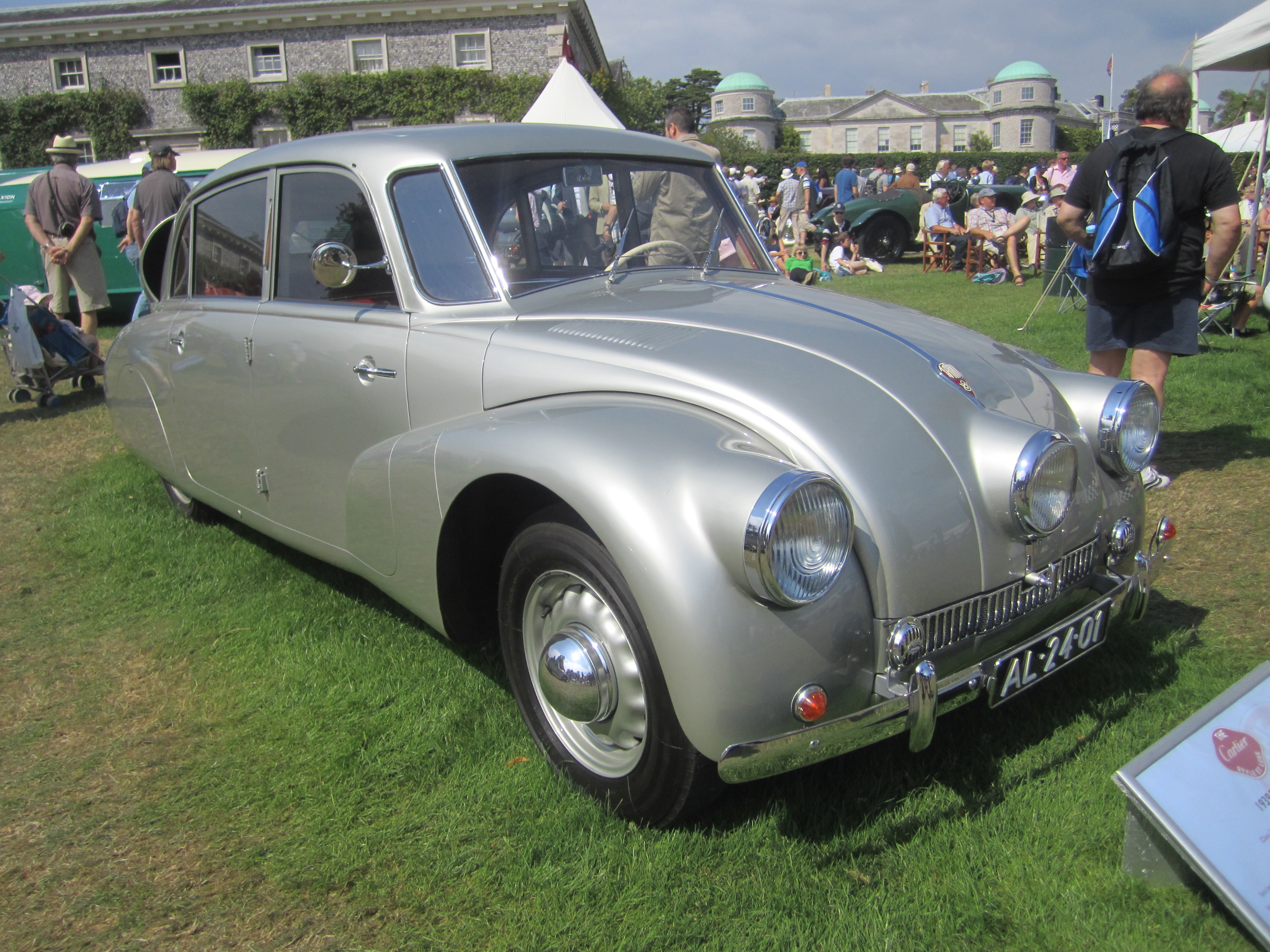 Tatra T87 (Czech) 1939. Taken at the Goodwood Festival of Speed England 2011-Cartier Style Et Luxe Concours D'elegance